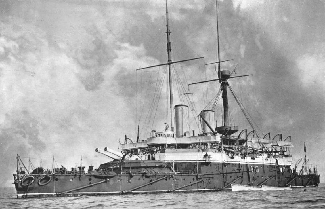 Photograph of British battleship HMS Anson circa. 1897. Twin 13.5 inch guns are seen in the forward barbette mounting.